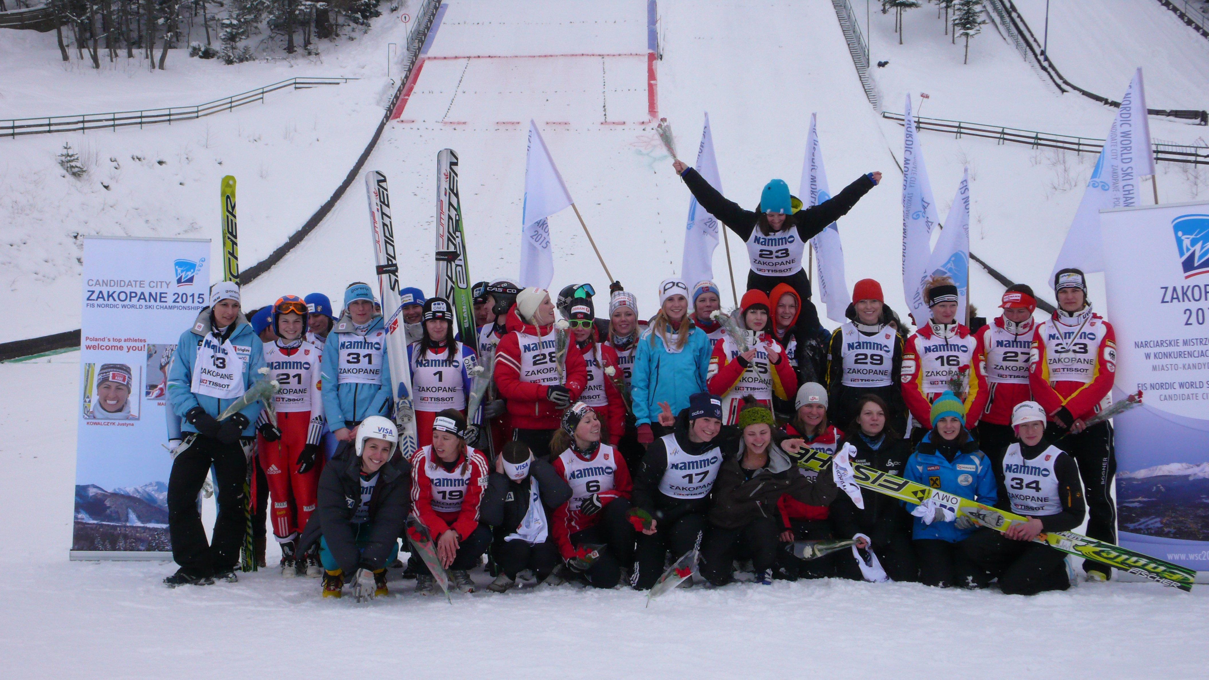 Women and girls, jumpers of the Ski jumping Continental Cup 2009-2010, in front of the Zakopane hill.